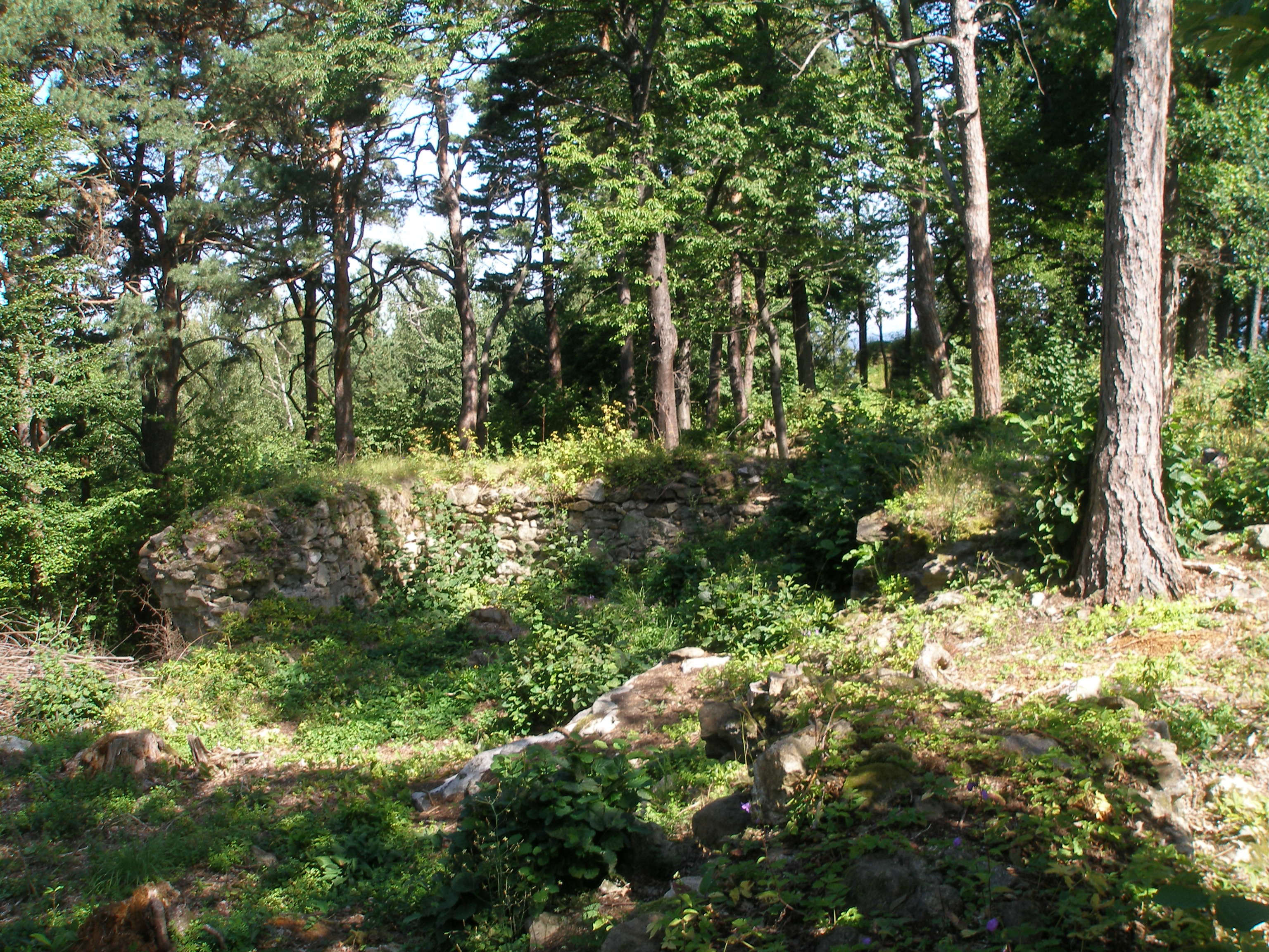 Osule - the ruin of the never finished castle (13th century)